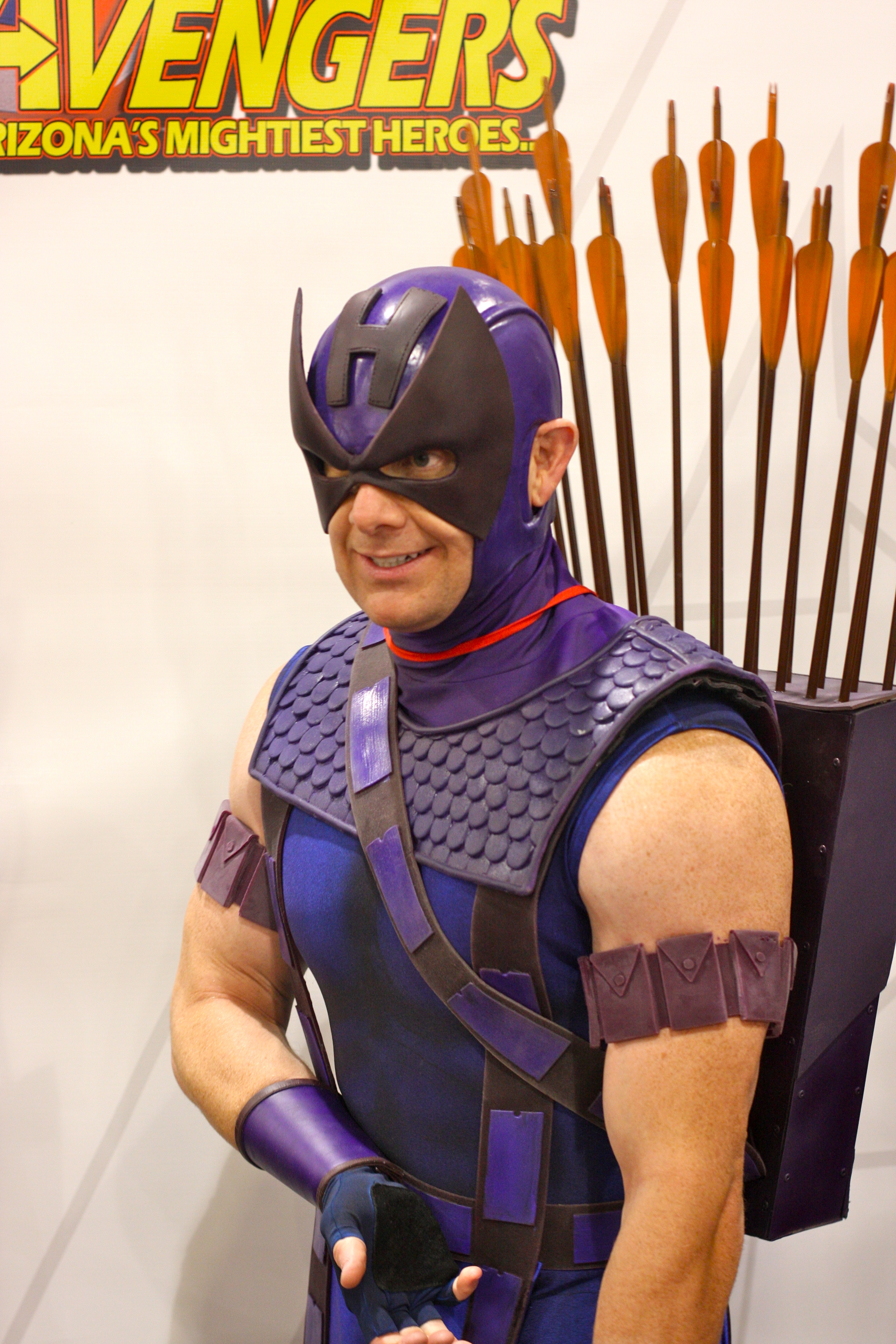 Images from Phoenix Comicon 2011. Clint Barton as Hawkeye from the Avengers.